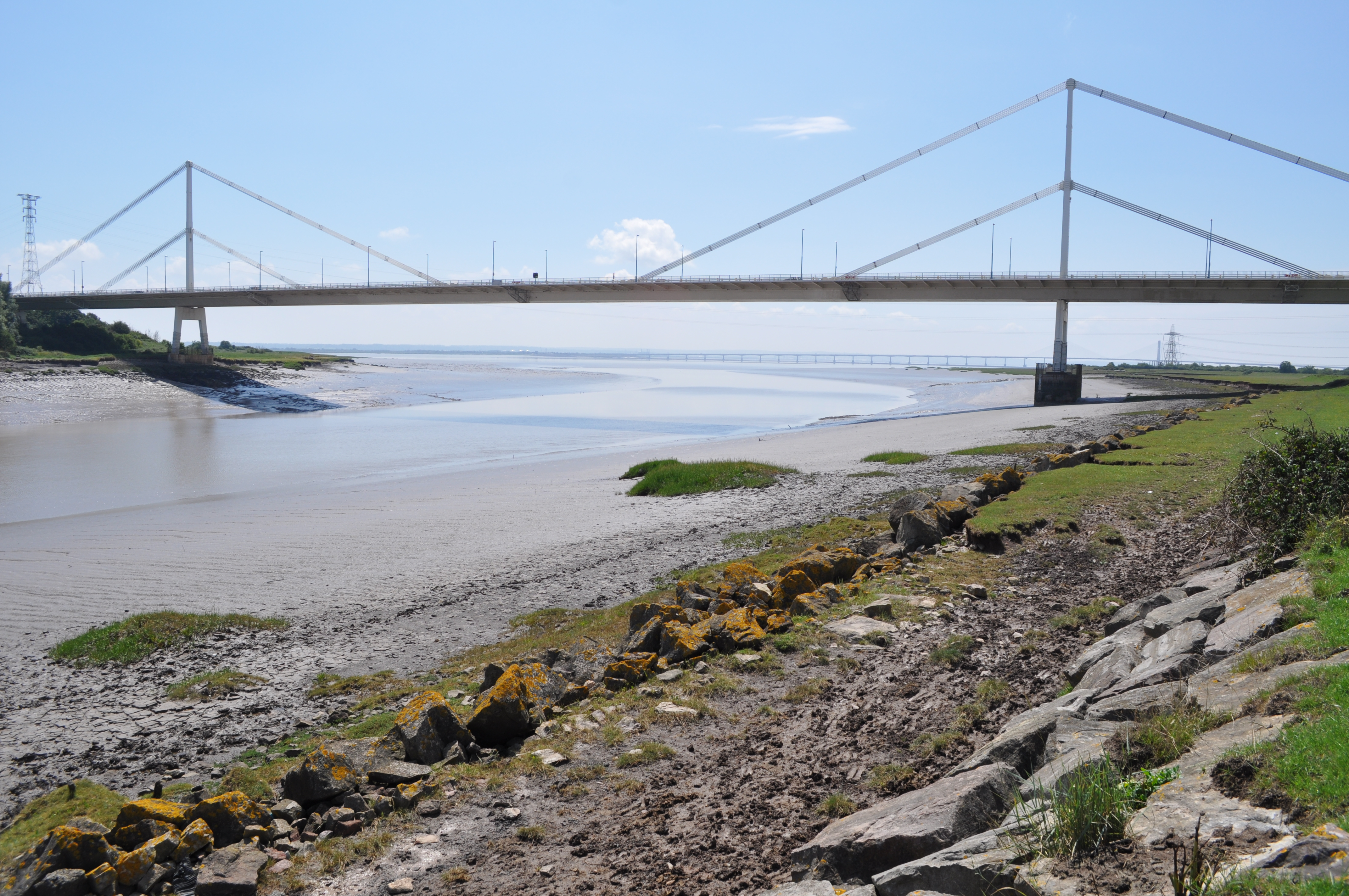 The Severn Bridge spans the River Severn between South Gloucestershire, England, and Monmouthshire in South Wales